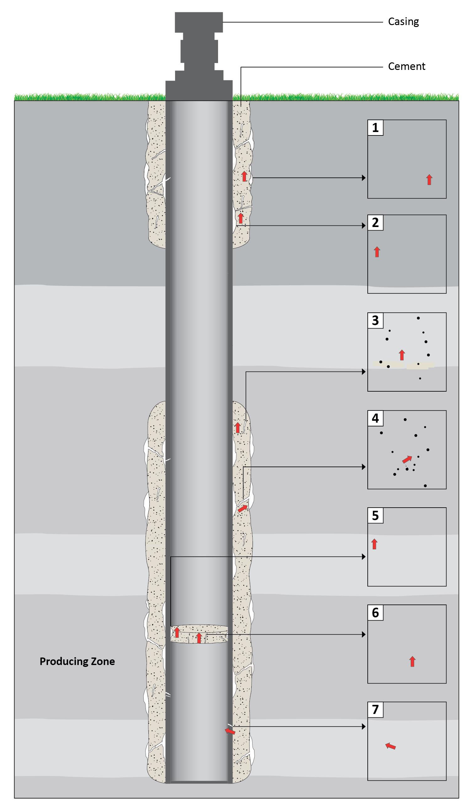 Differences between SCVF and GM